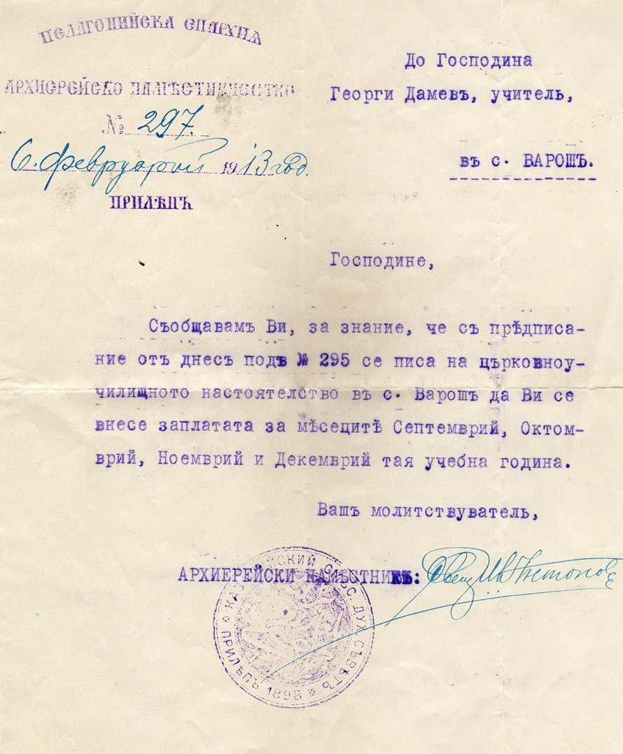 Document of Prilep Bulgarian Municipality 6 February 1913